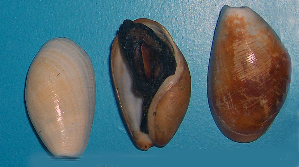 Scaphander lignarius, a sea snail from the family Cylichnidae